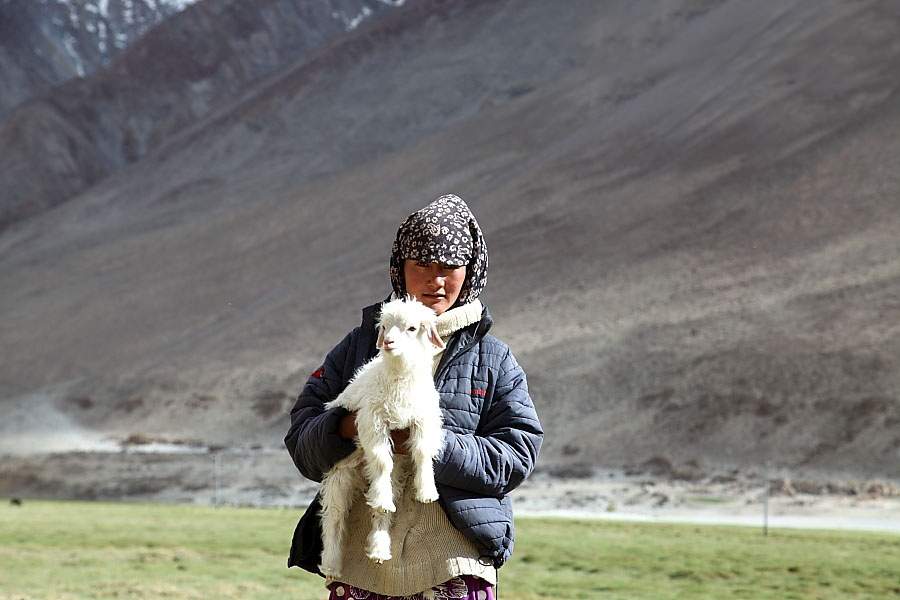 A girl from Changpa nomadic tribe en route to Pangong Tso in Ladakh